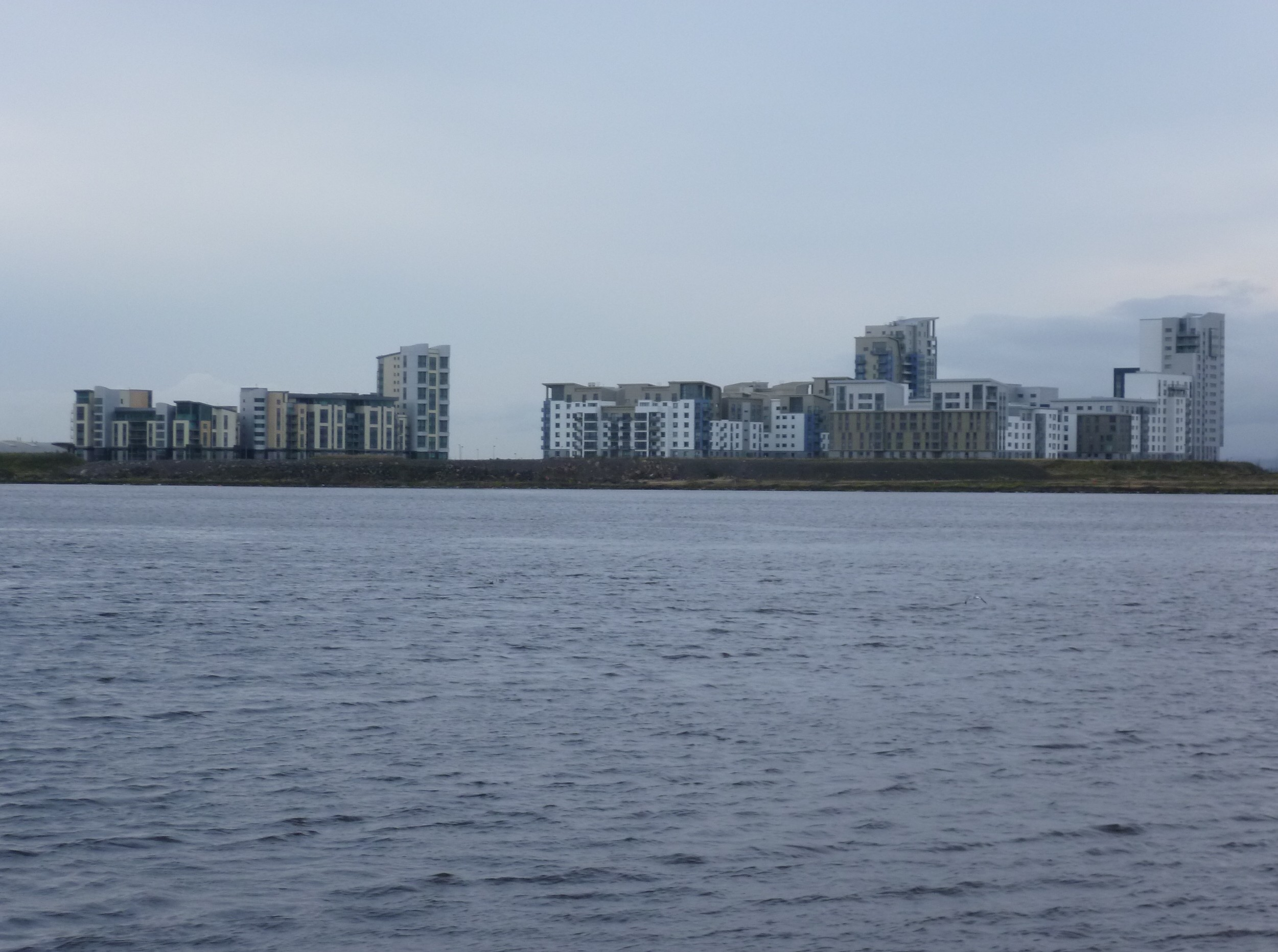 Blocks of flats at Western Harbour, Leith